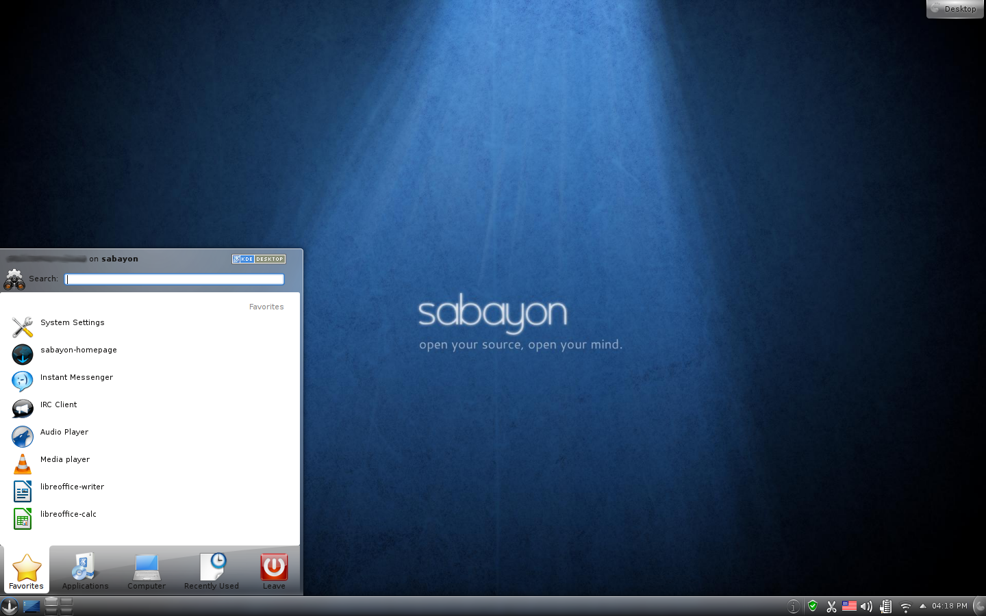 Screenshot of Sabayon Linux 7 with KDE Software Compilation